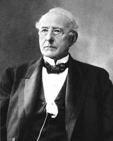 George Cochrane Hazelton (Wisconsin Congressman)